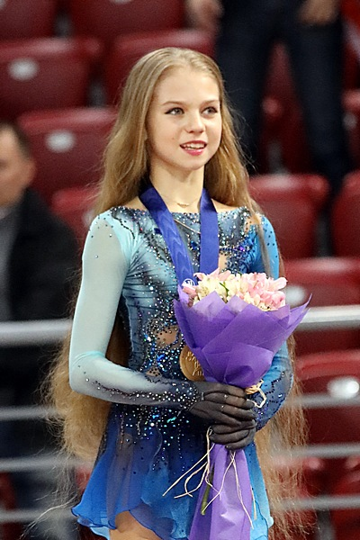 Photos – Junior World Championships 2018 – Ladies (Medalists)